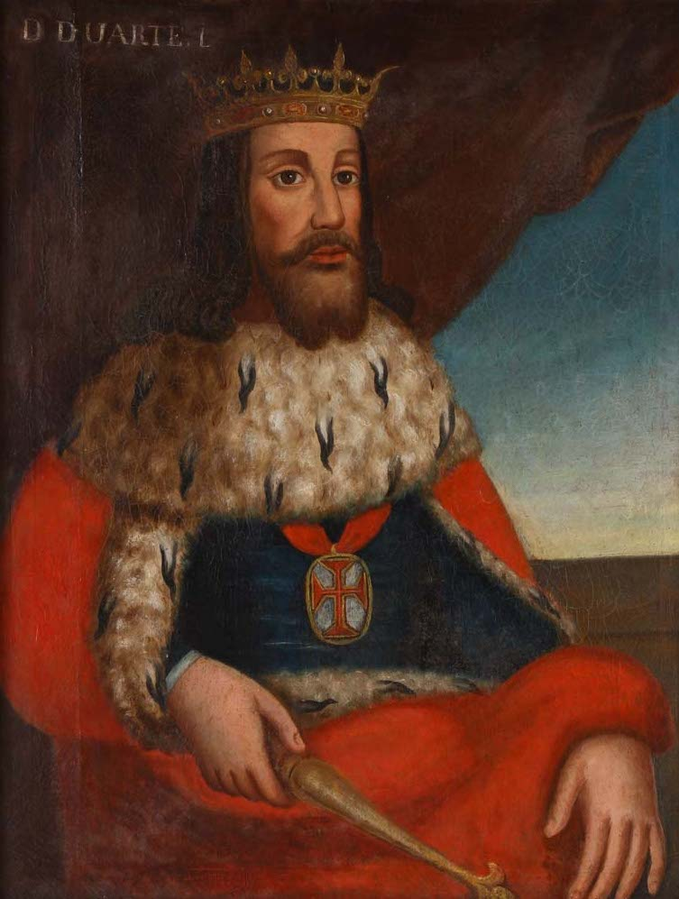 Duarte I of Portugal